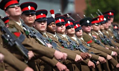 Junior soldiers graduate from the Army Foundation College